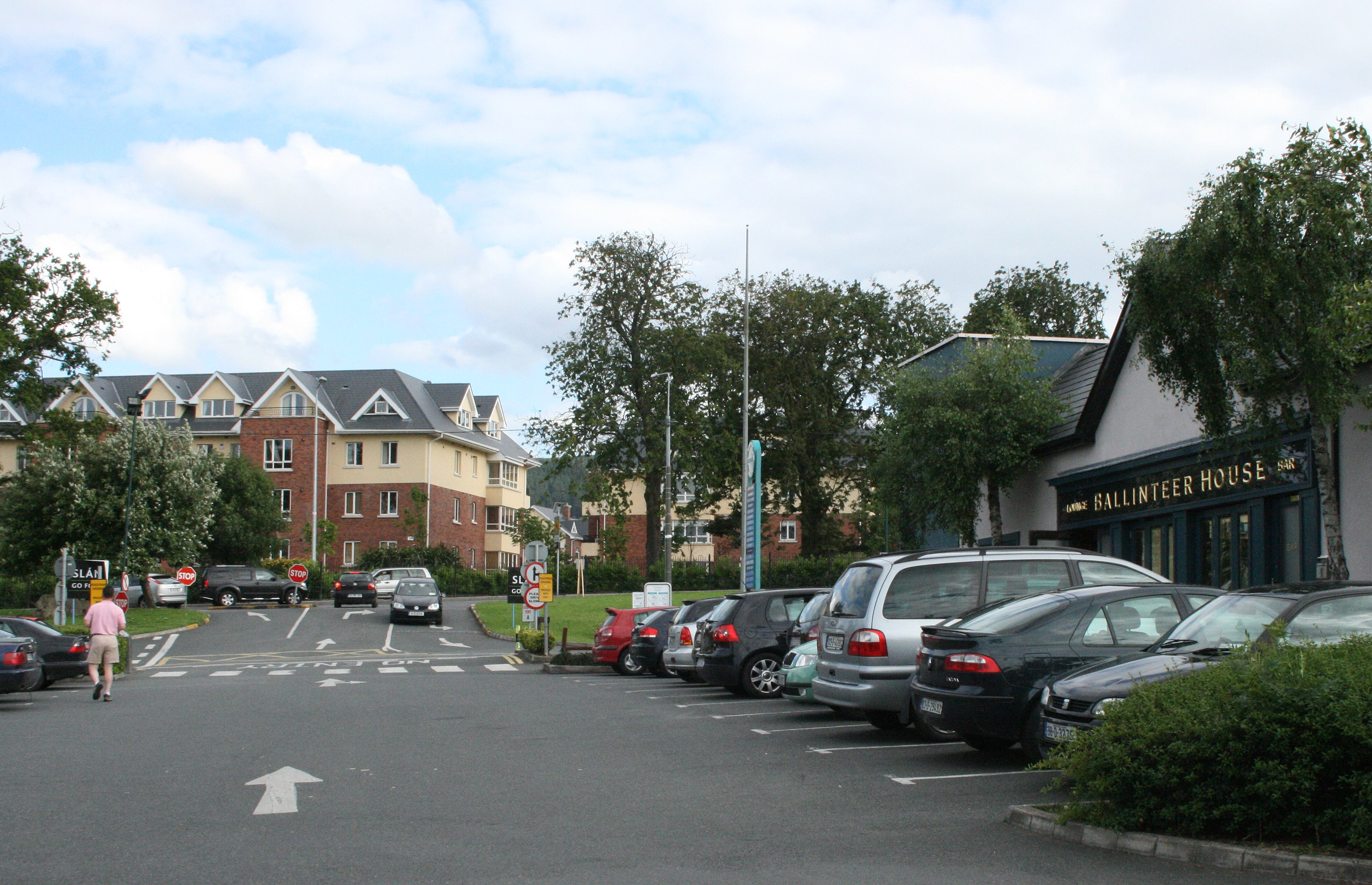 Balinteer, Dublin, Ireland (The Superquin shopping complex area)